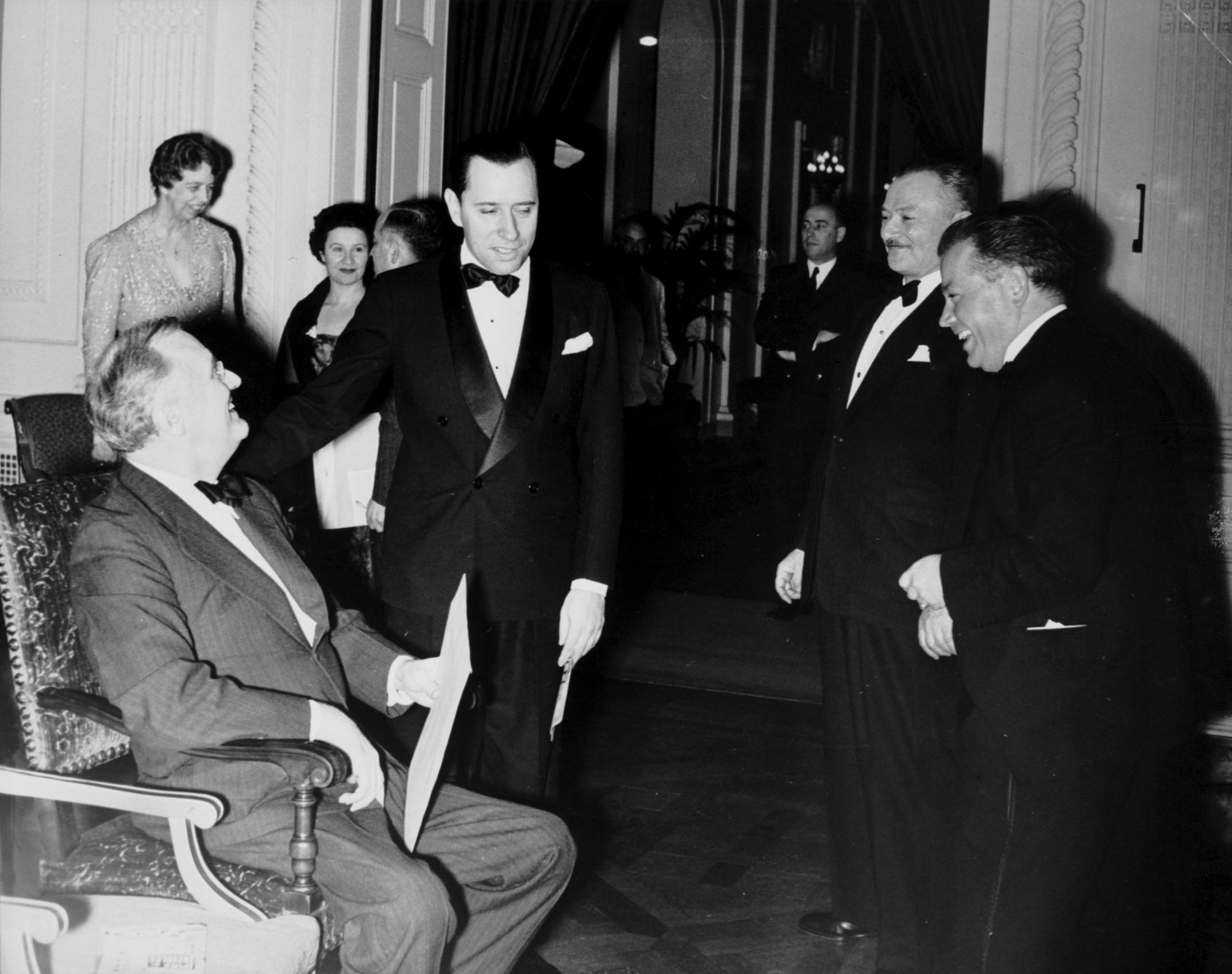 Title: Franklin and Eleanor Roosevelt, David and Emma Dubinsky, Max Danish and others at a White House production of "Pins & Needles" Date: Unknown Photographer: Unknown Photo ID: 5780PB30F14D Collection: International Ladies Garment Workers Union Photographs (1885-1985) Repository: The Kheel Center for Labor-Management Documentation and Archives in the ILR School at Cornell University is the Catherwood Library unit that collects, preserves, and makes accessible special collections documenting the history of the workplace and labor relations. Notes: No additional information available. Copyright: The copyright status of this image is unknown. It may also be subject to third party rights of privacy or publicity. Images are being made available for purposes of private study, scholarship, and research. The Kheel Center would like to learn more about this image and hear from any copyright owners who are not properly identified so that we may make the necessary corrections. Tags: Kheel Center for Labor-Management Documentation and Archives,Cornell University Library,Labor Leaders, Musical Performances, Public Figures, Labor Plays